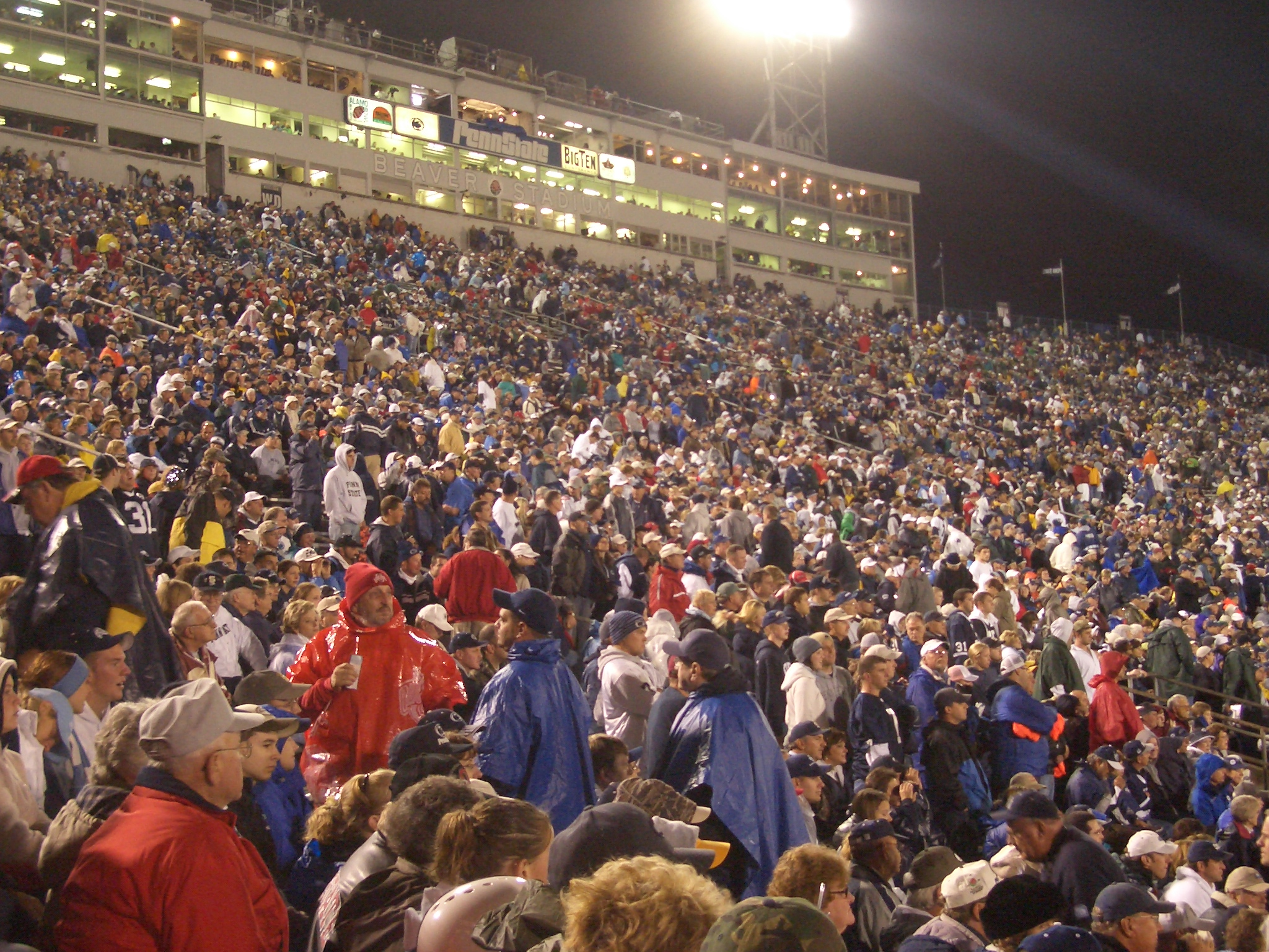 Photographed on October 8, en:2005. A slew of Penn State fans intently watch as the Penn State Nittany Lions face the Ohio State Buckeyes in one of the largest attended games in Beaver Stadium history.